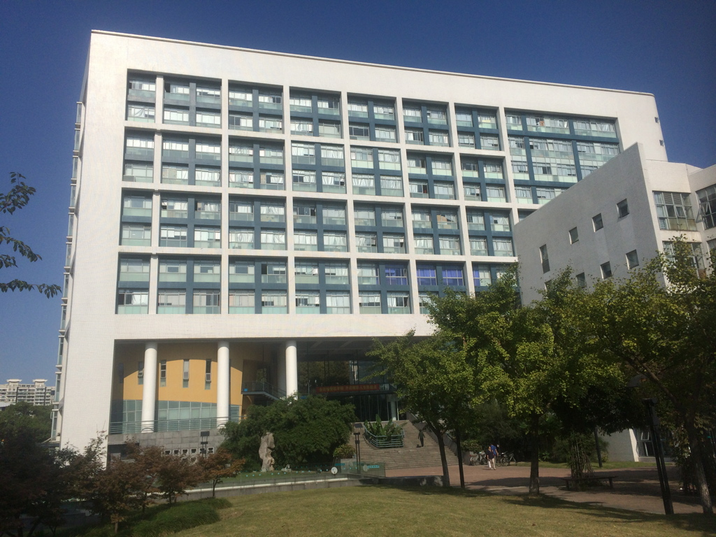 Main administrative building of the Shanghai Tongji University School of Medicine (TUSM) on Siping Campus